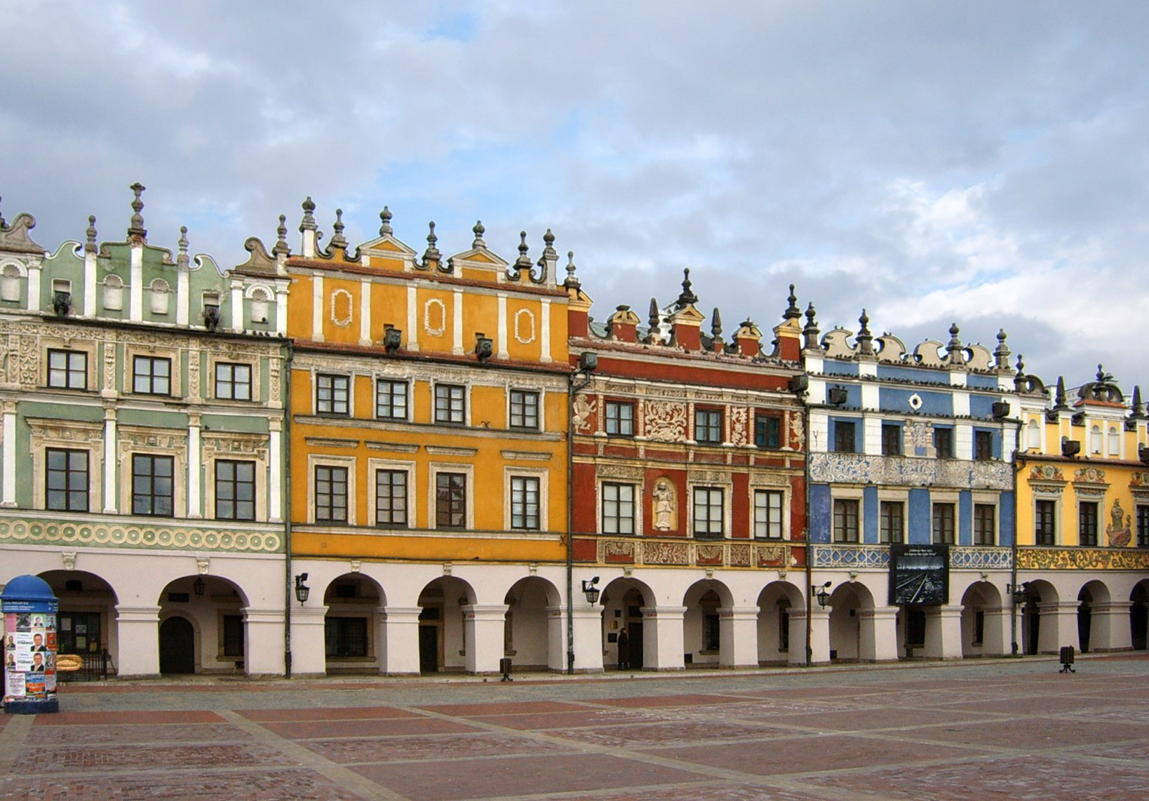 Great Market in Zamość - Armenian tenements; Zamość Museum